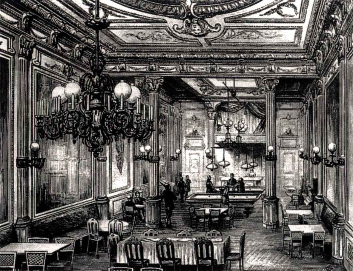 Maastricht, the Netherlands. Interior of Sociëteit Momus (1839-1939), a men's social club in Maastricht. Unknown illustrator, 1883.